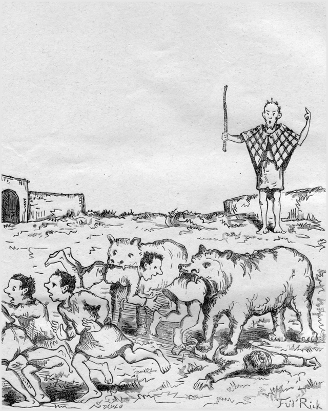 322 illustration from book "La Bible amusante" by Léo Taxil (1882)